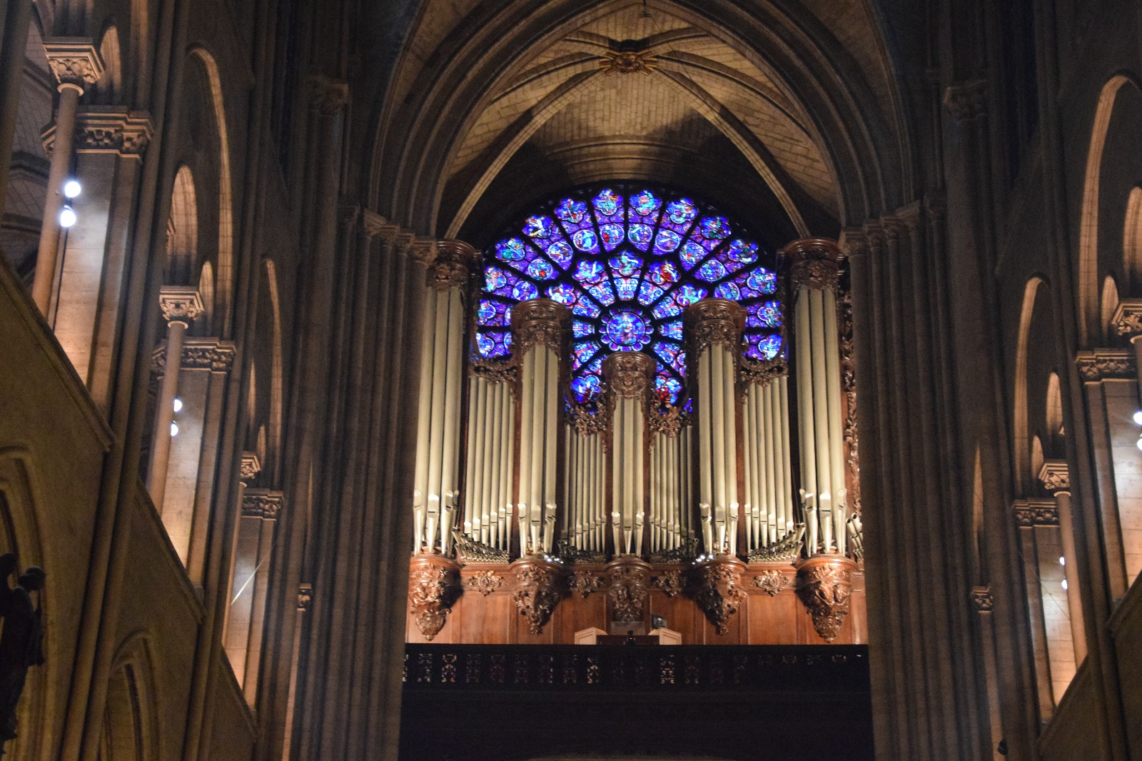 Notradame cathedral, Paris.